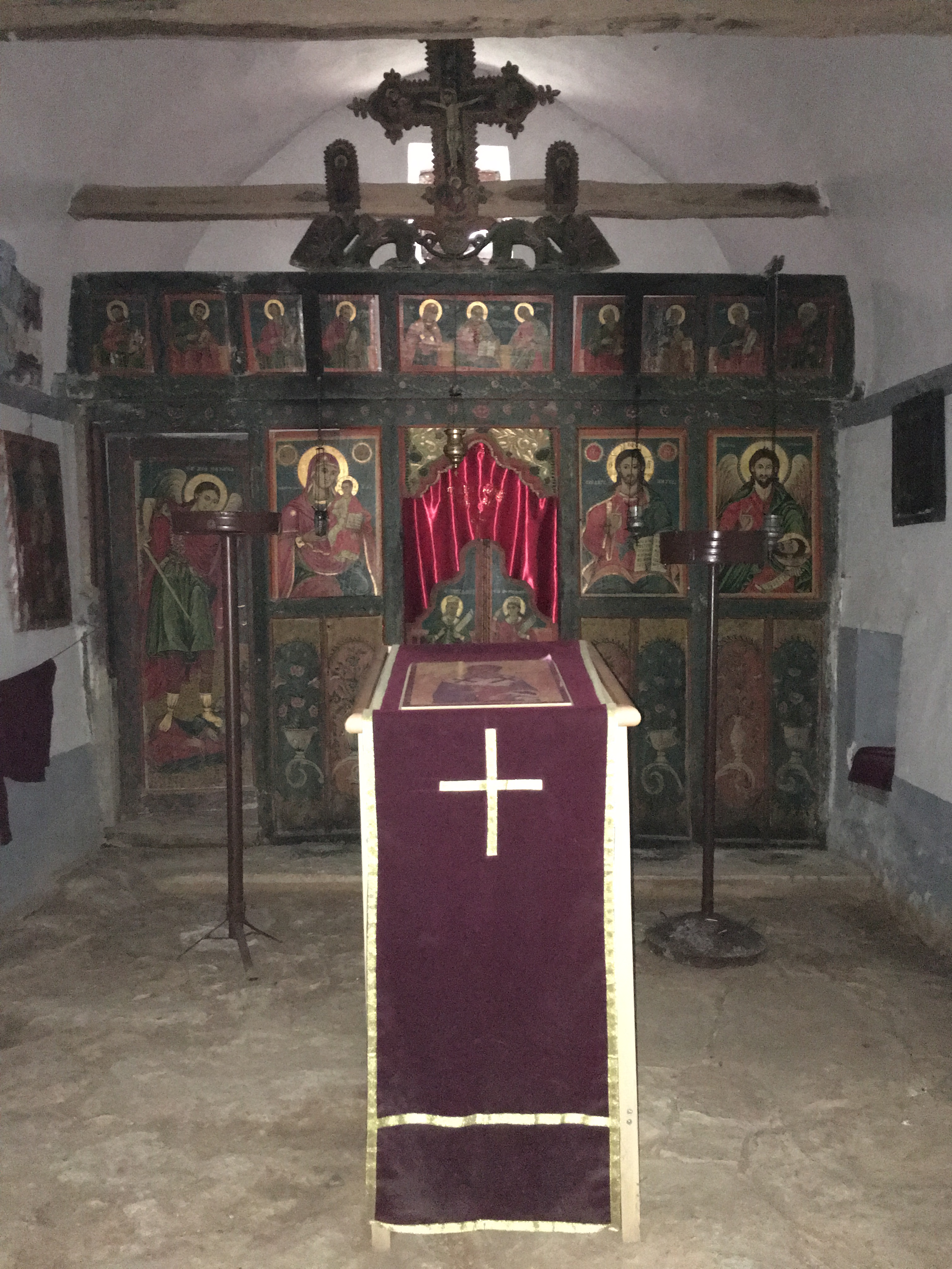 Wikiexpedition to Kopačka